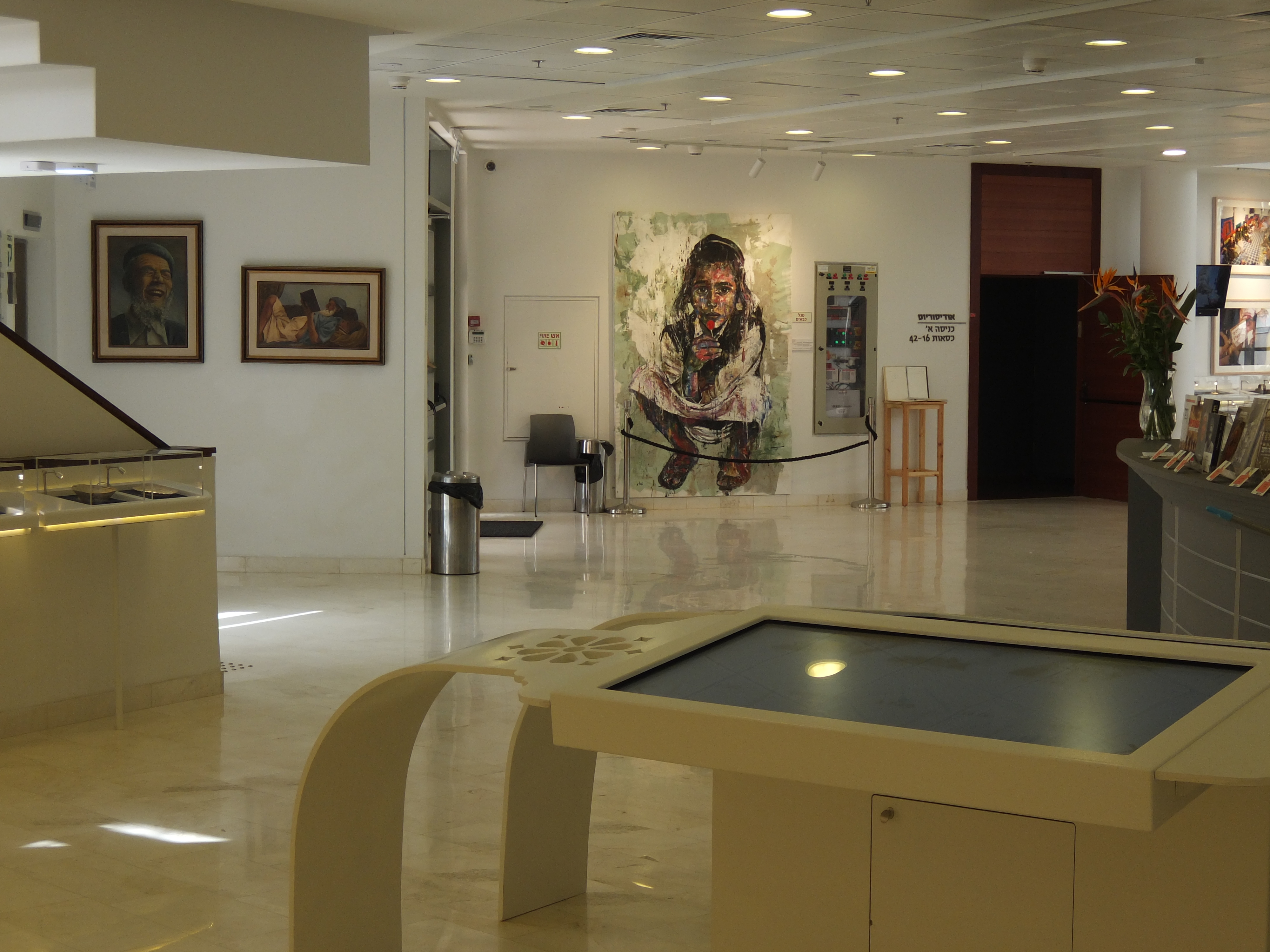 The Yemenite Jewish Heritage Center in Rehovot